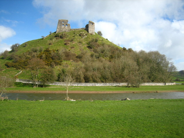 Dryslwyn Castle is a native Welsh castle, sited on a hill roughly halfway between Llandeilo and Carmarthen in West Wales.